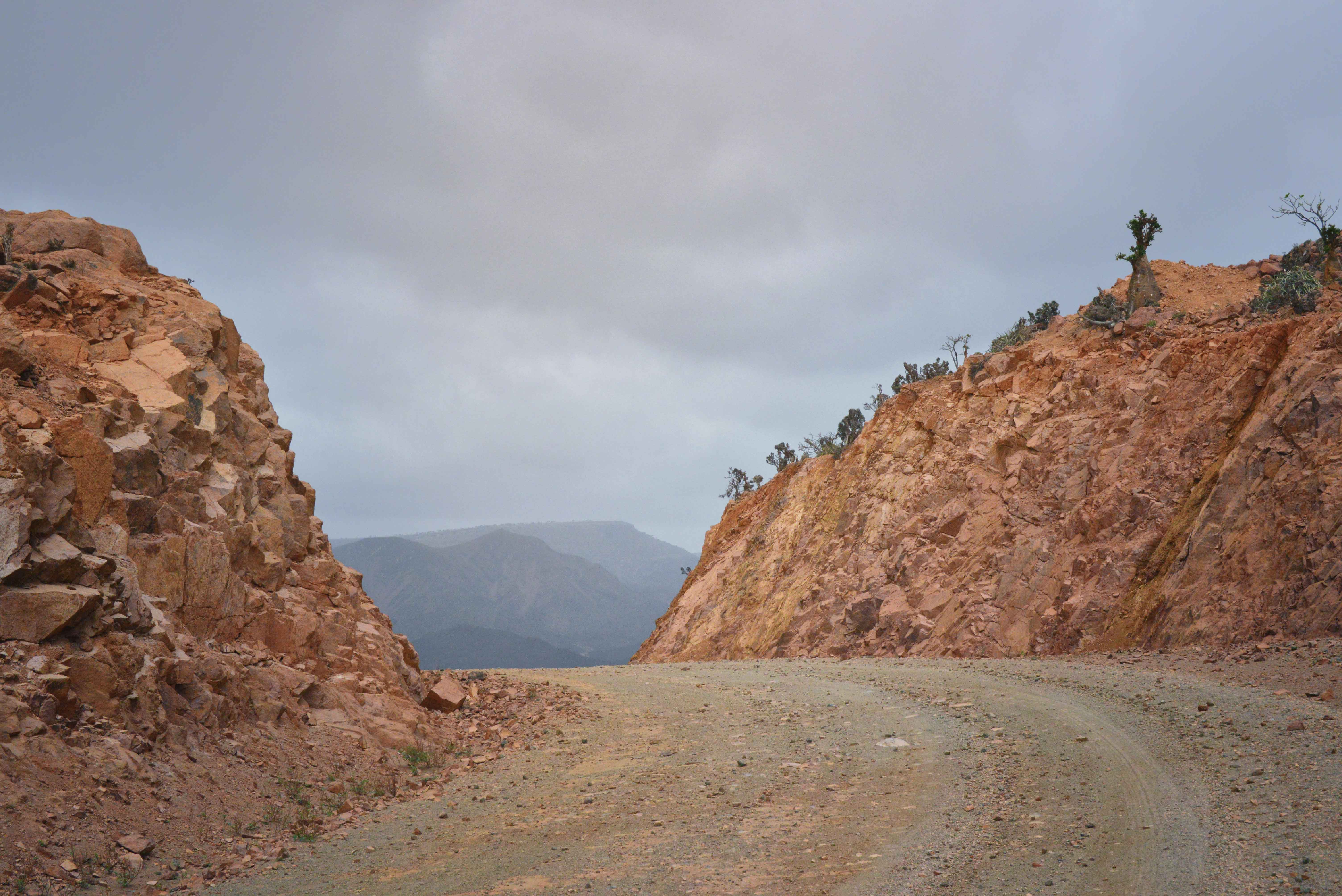 Socotra Island, Yemen